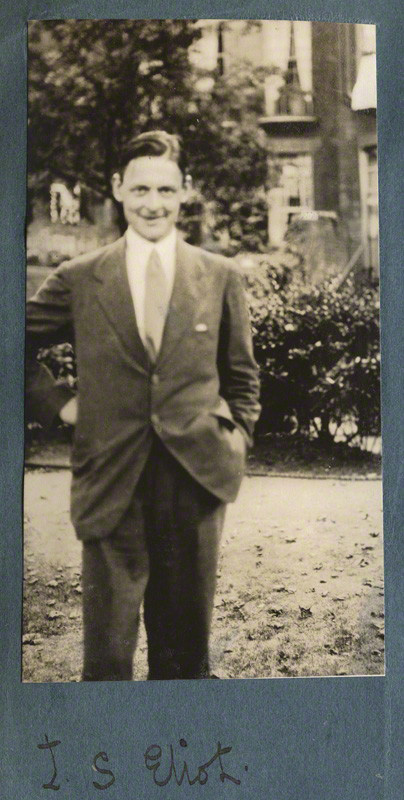 Photograph of T. S. Eliot